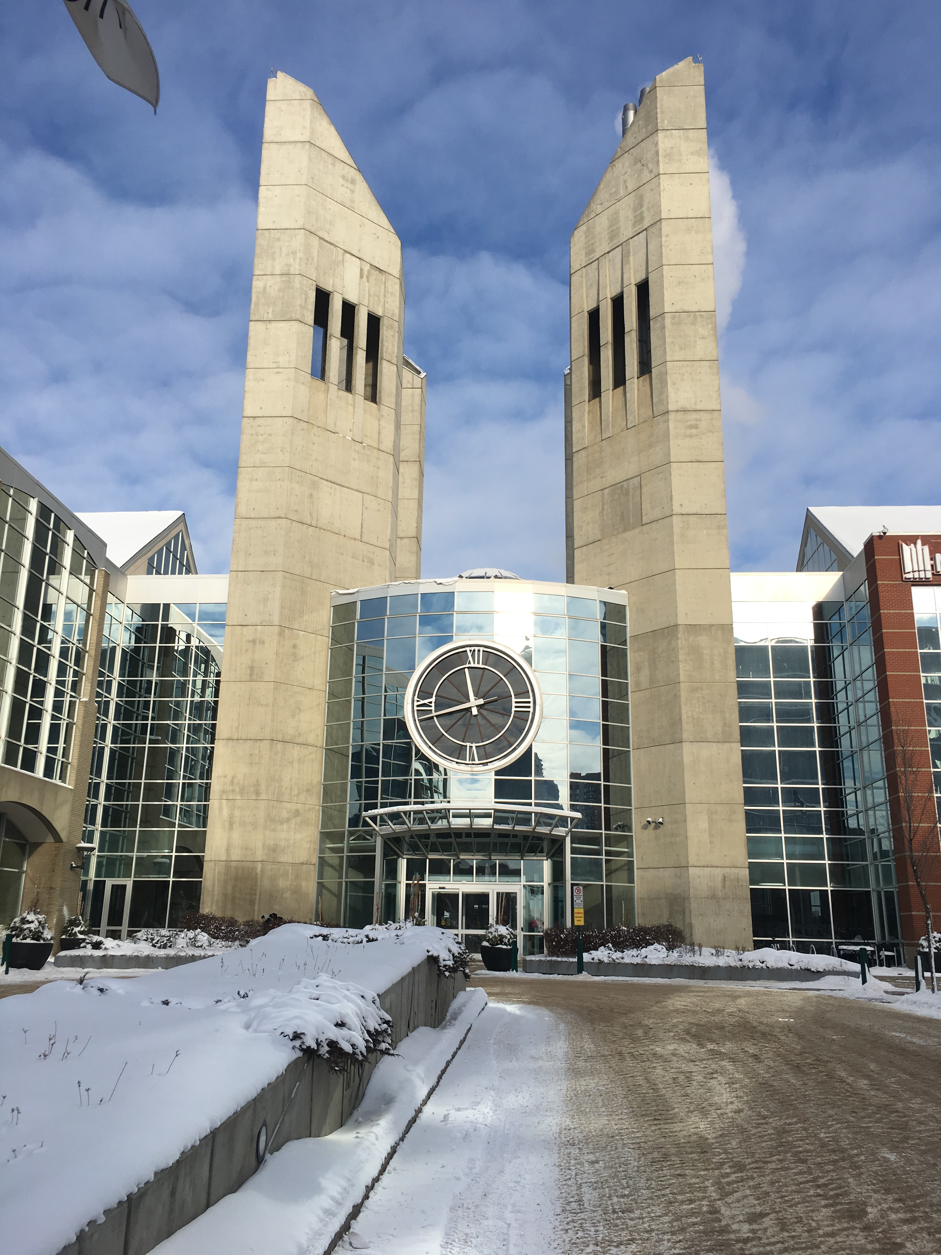 Description in caption.